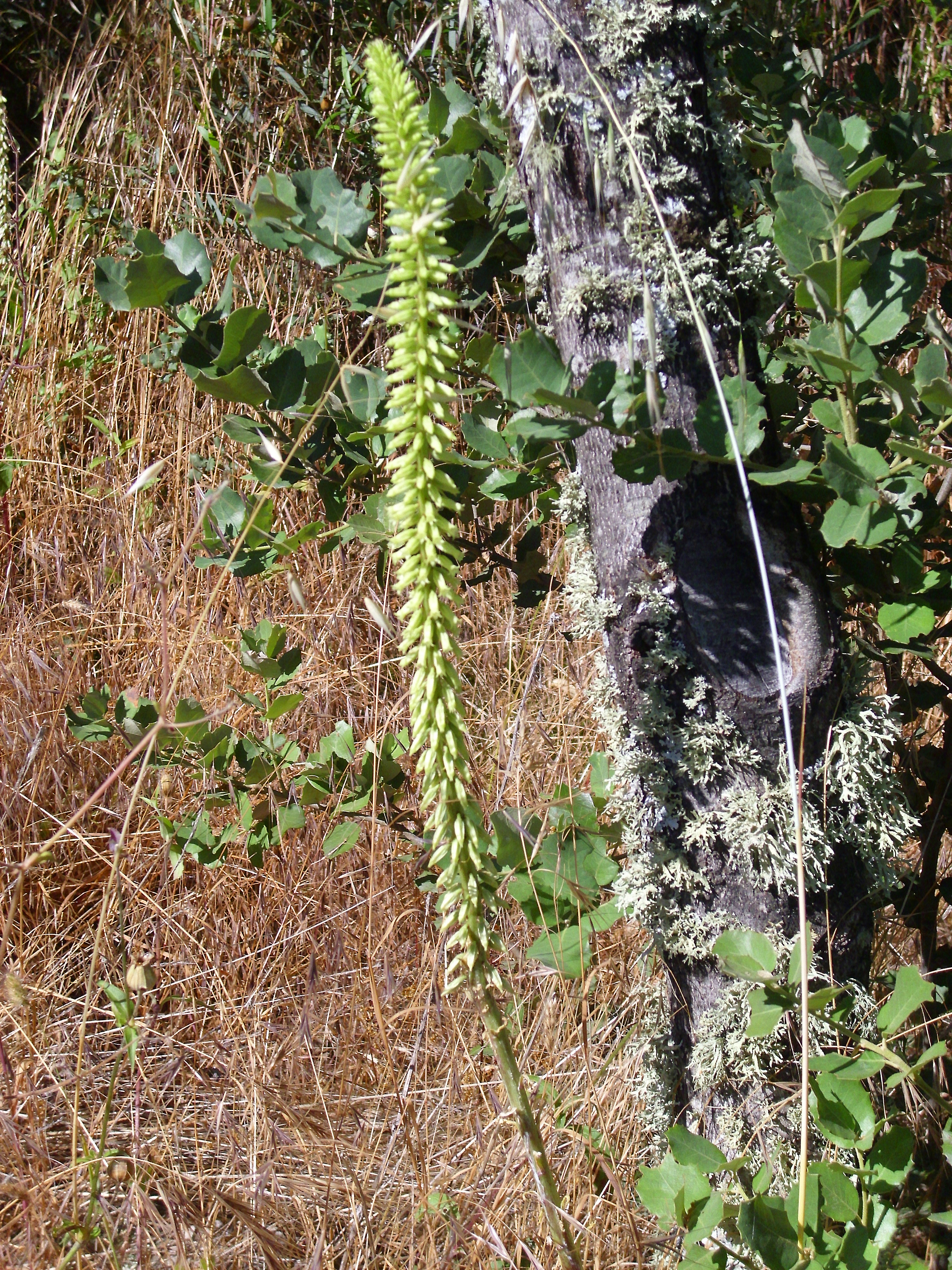 Umbilicus heylandianus inflorescence, Dehesa Boyal de Puertollano, Spain